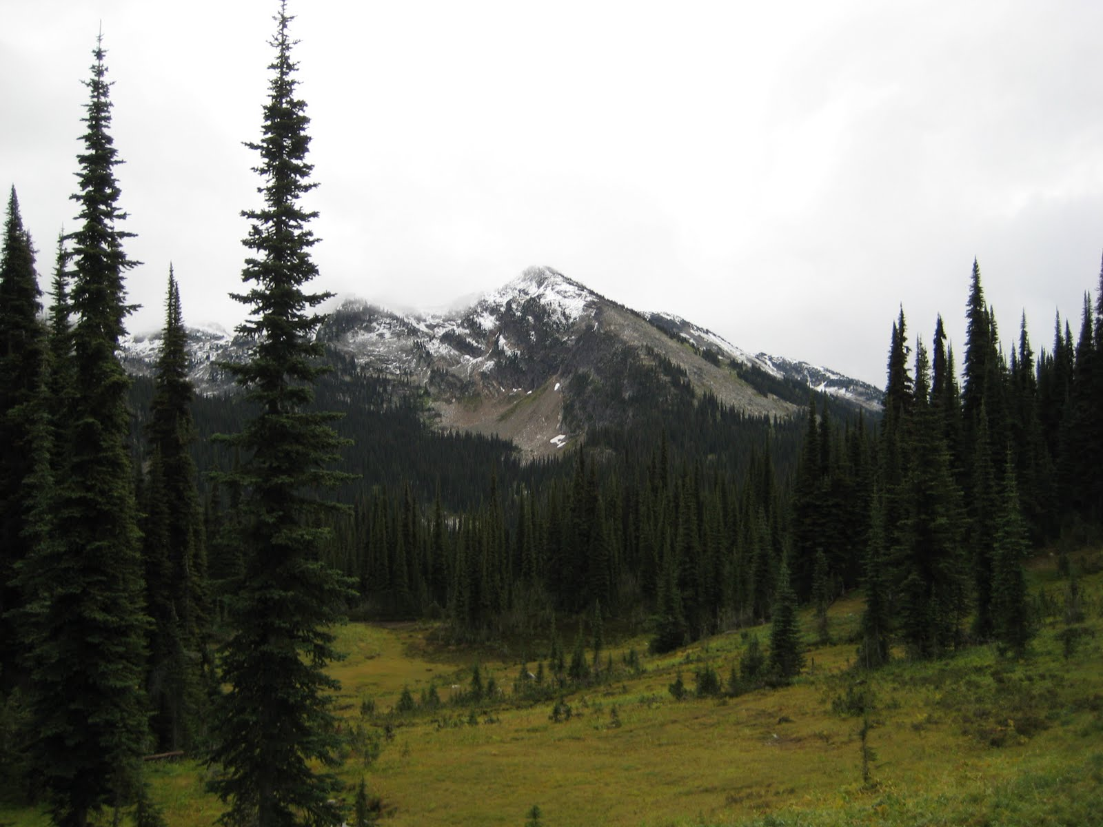 Mount Revelstoke National Park, Eva Lakes Trail